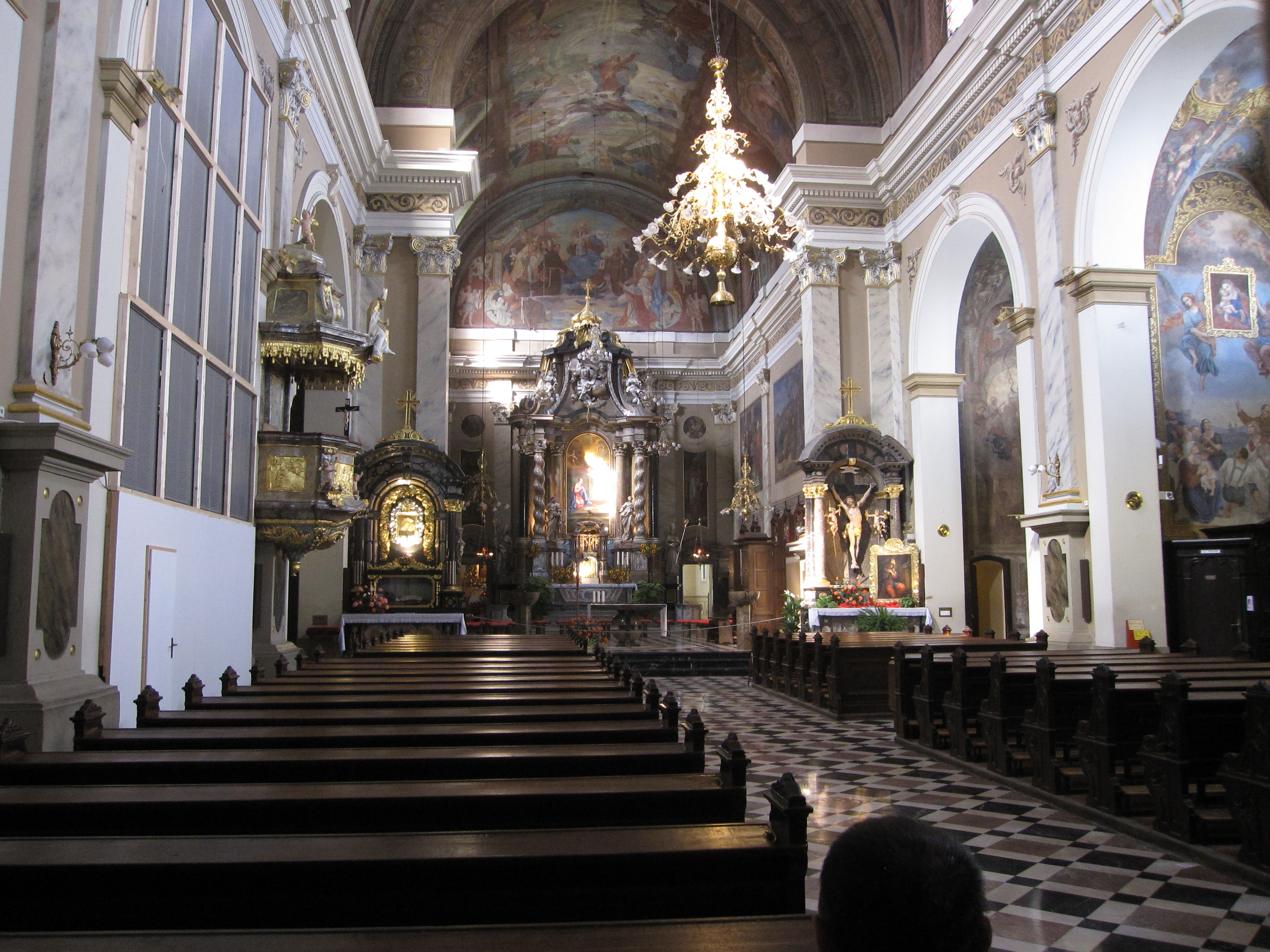 Franciscan Monastery and Church of Annunciation